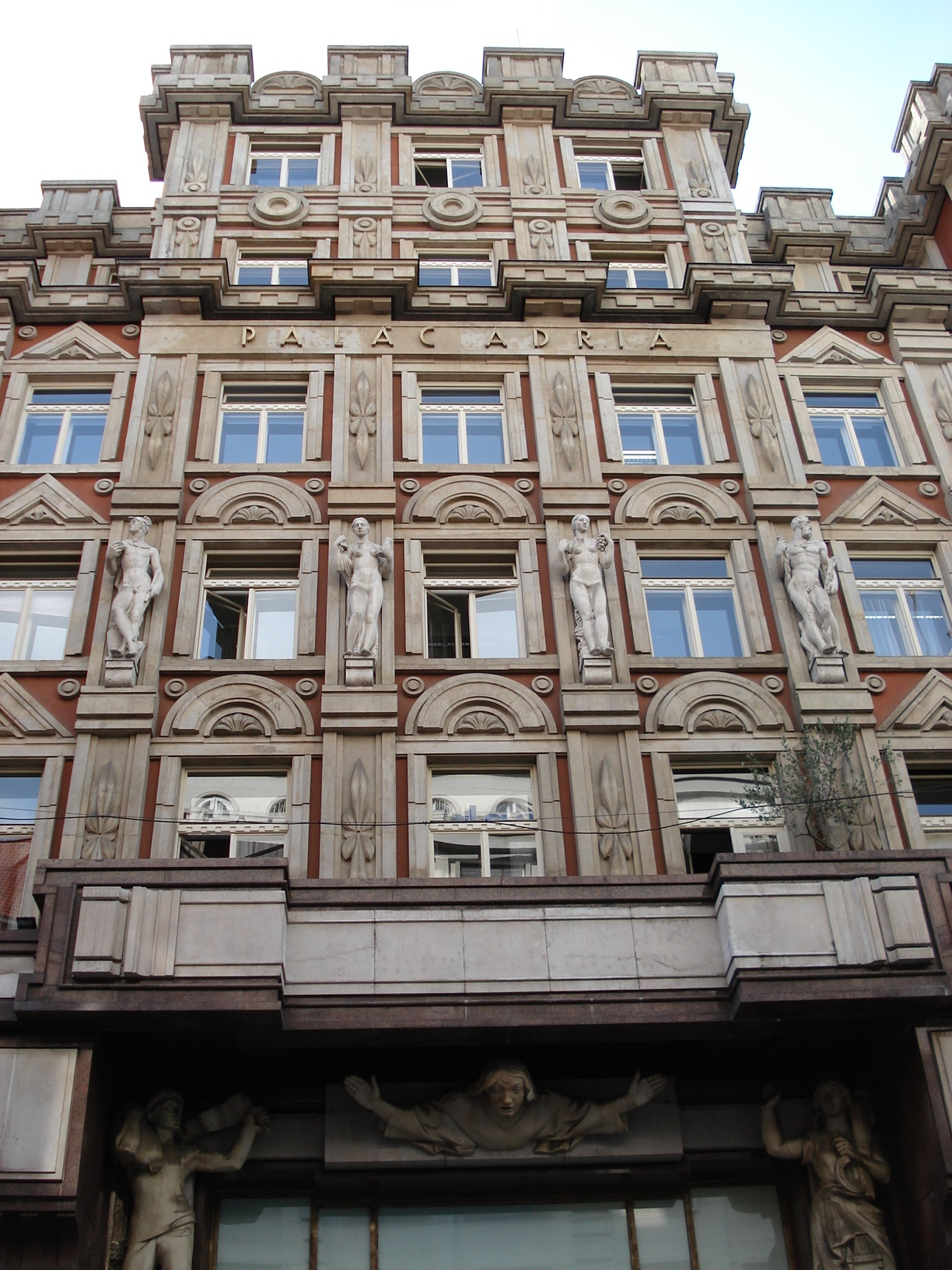 Palac Adria (originally: Riunione Adriatica di Sicurtà Department store and Office Building), arch. Pavel Janák, Jungmanova ul. 31, Prague. built 1922-25.